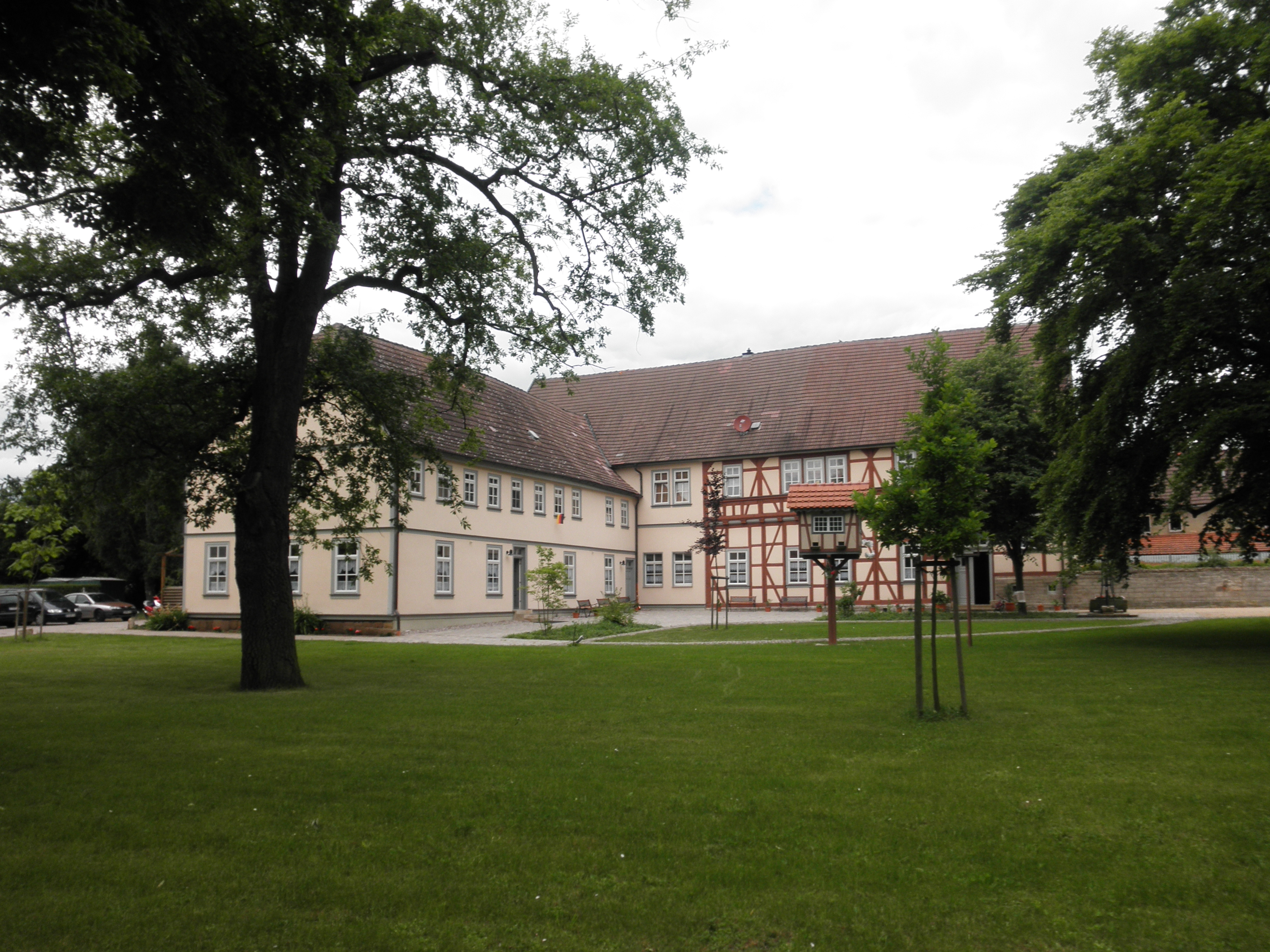 Manor House in Brüheim (Thuringia)